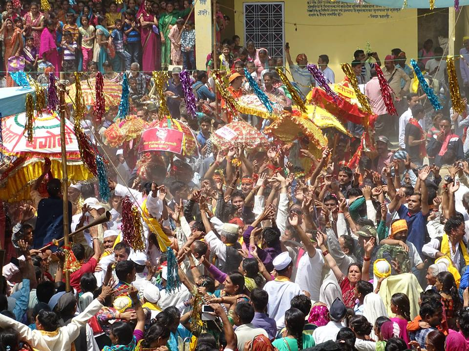 This Image Is Taken During The Nanda Devi Raj Festival In Kulsari Village. I Have All The Rights To Use This Image And Anybody Can Use This Image.